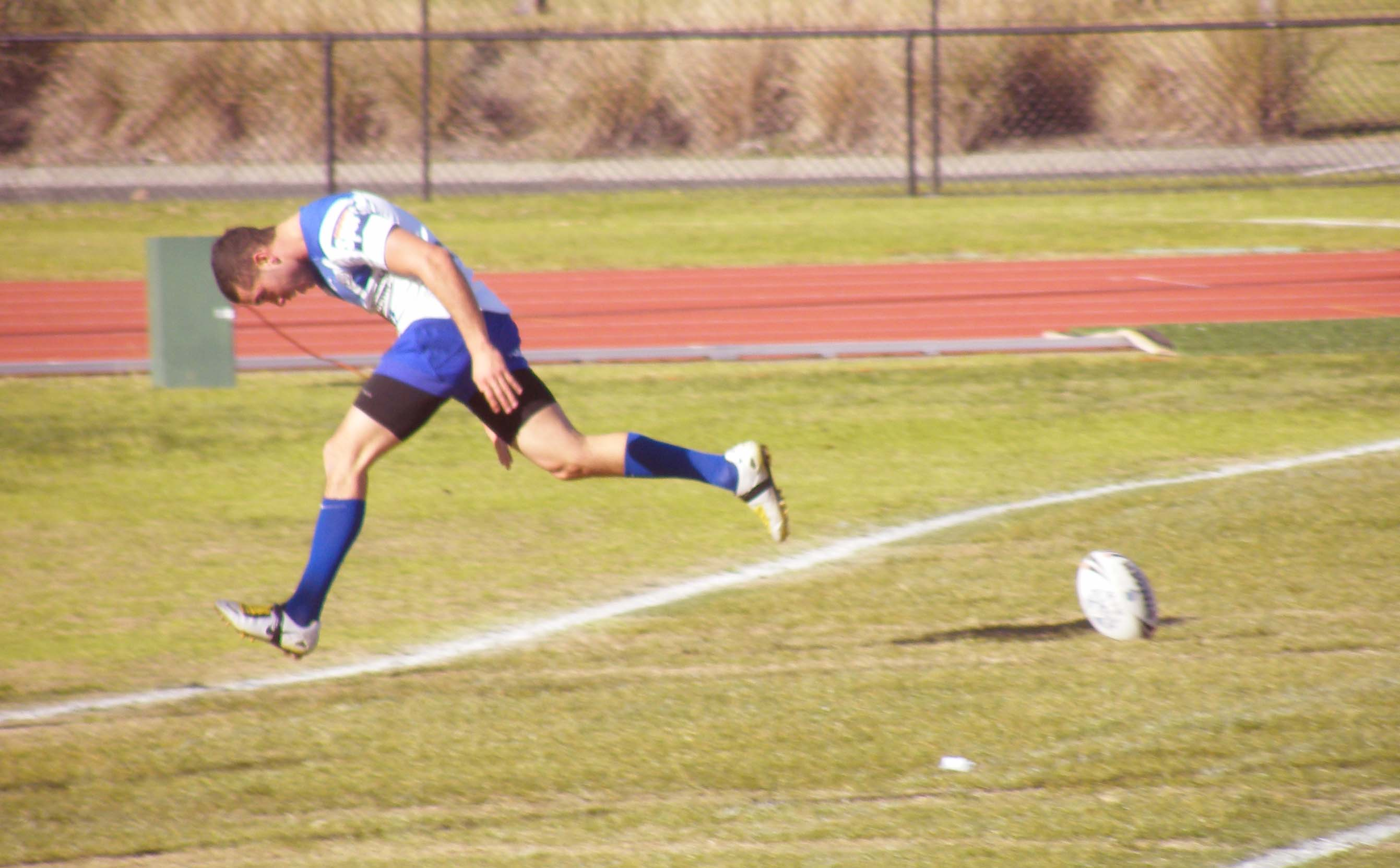 Bulldogs winger Ryan Millard in for another try against Central Newcastle.